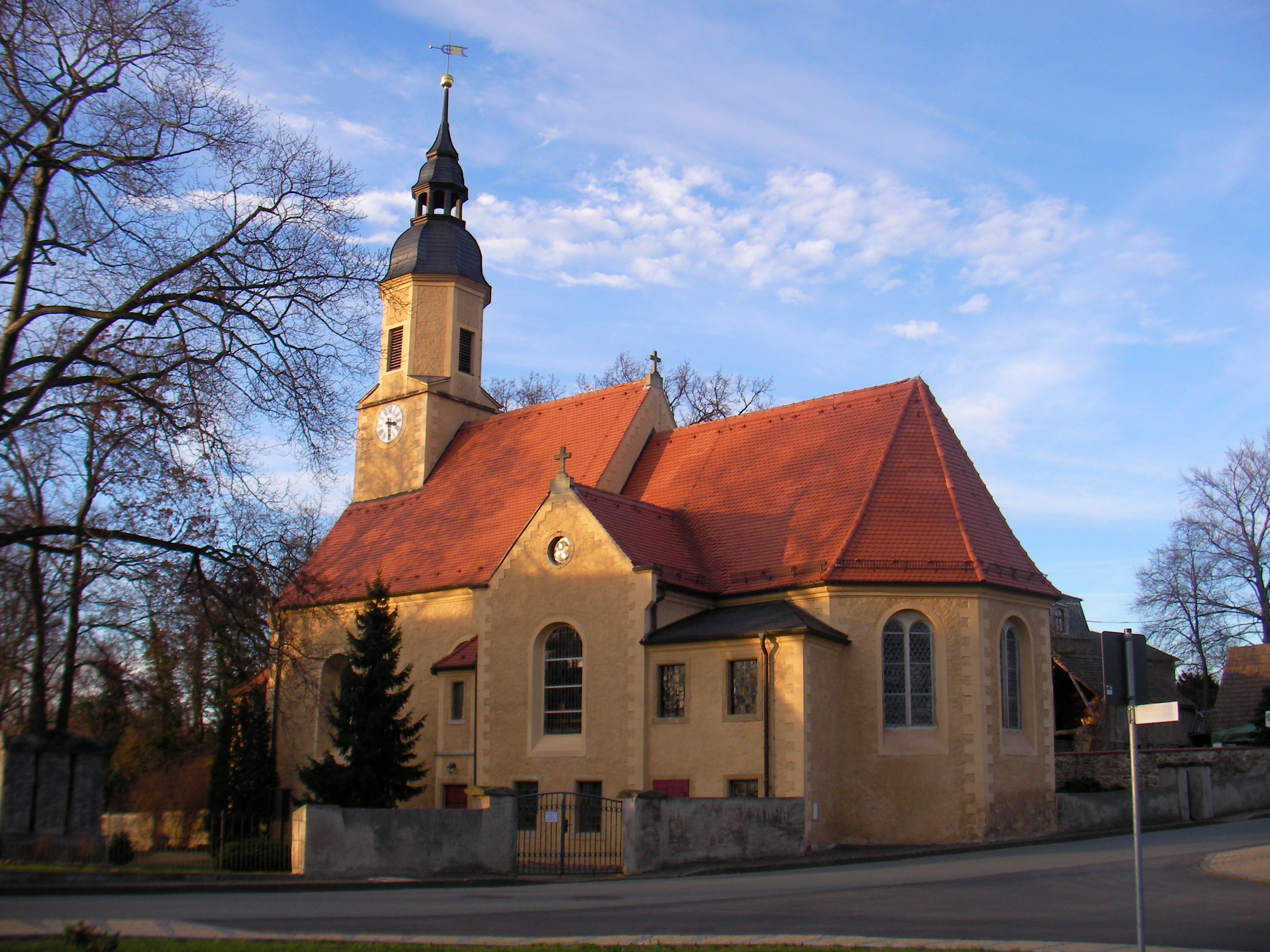 church of Glaubitz, a town in Meissen district of Saxonia lander